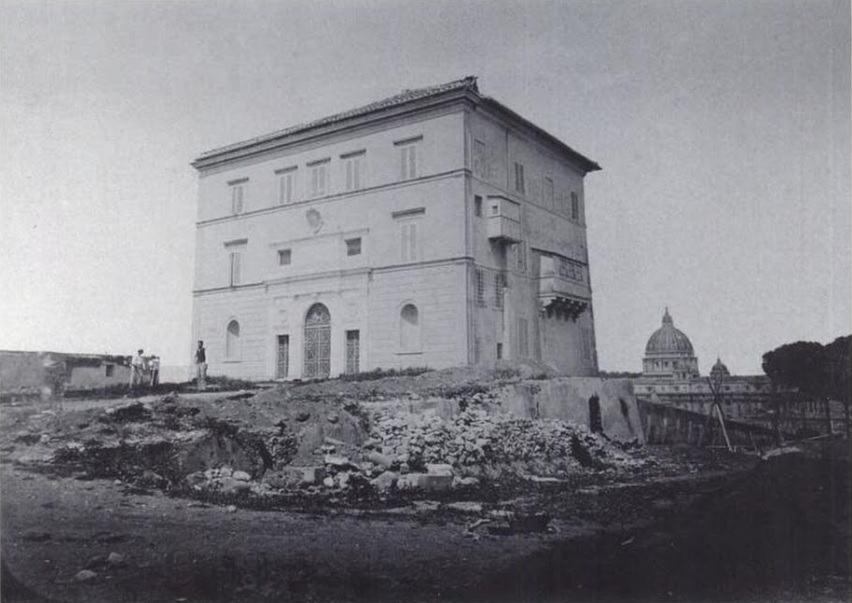 An 1878 image of the casino (house) of Villa Gabrielli on the Janiculum hill in Rome. Today it is known as "Casa O'Toole" and forms part of the campus of the Pontifical North American College.